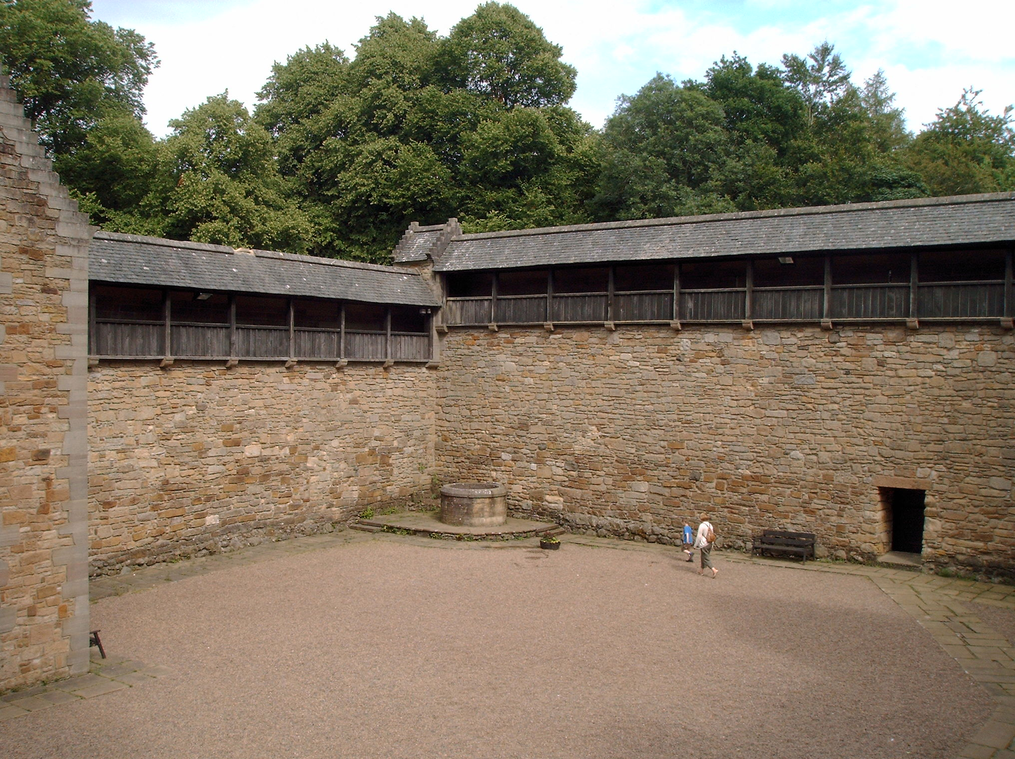 The walkway at Dean Castle, Kilmarnock, Scotland